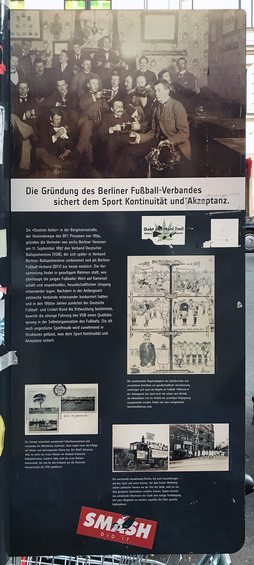 Memorial plaque, Verband Berliner Ballspielvereine, Bergmannstraße 107, Berlin-Kreuzberg, Deutschland